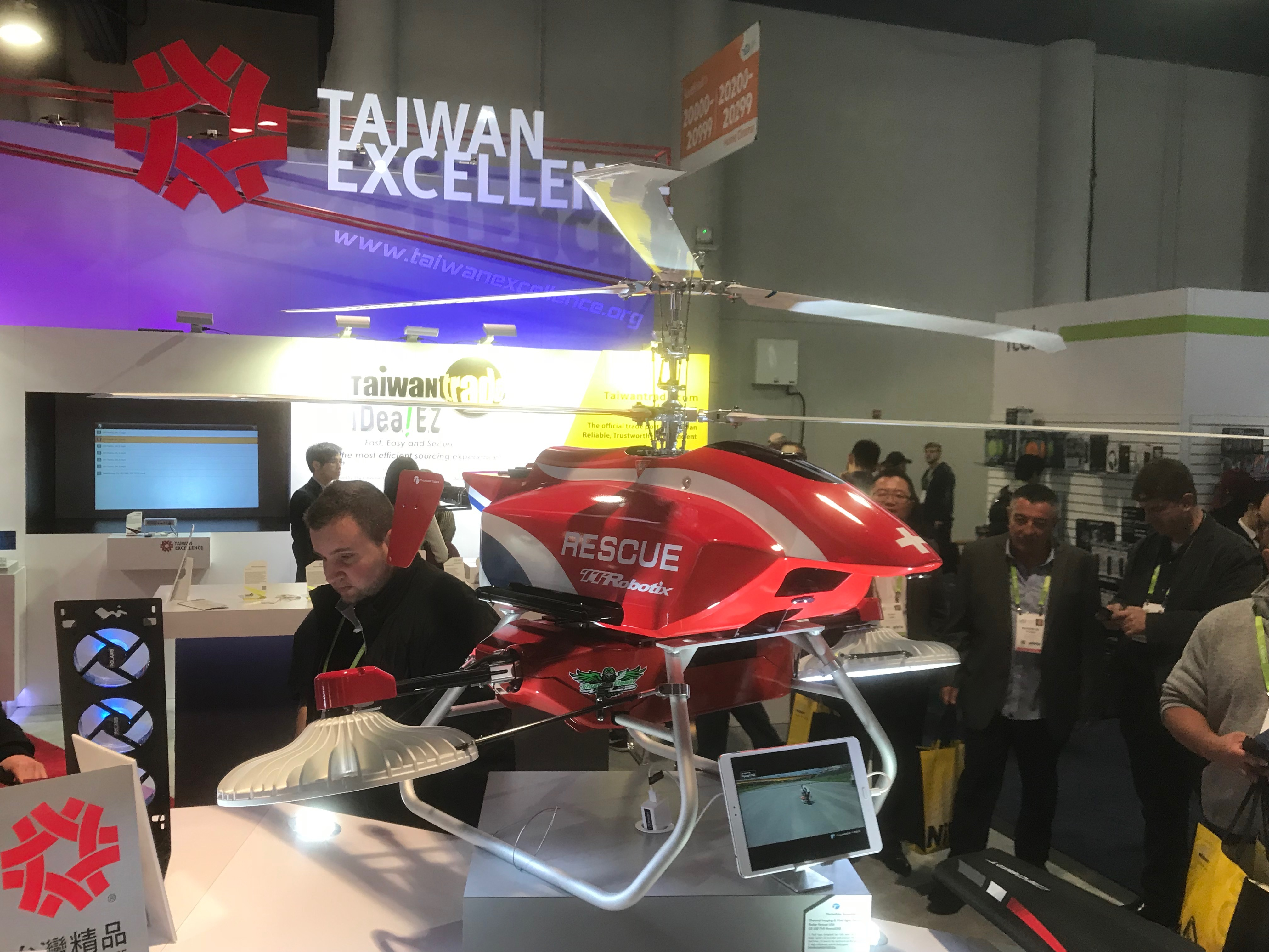 2018 CES Las Vegas